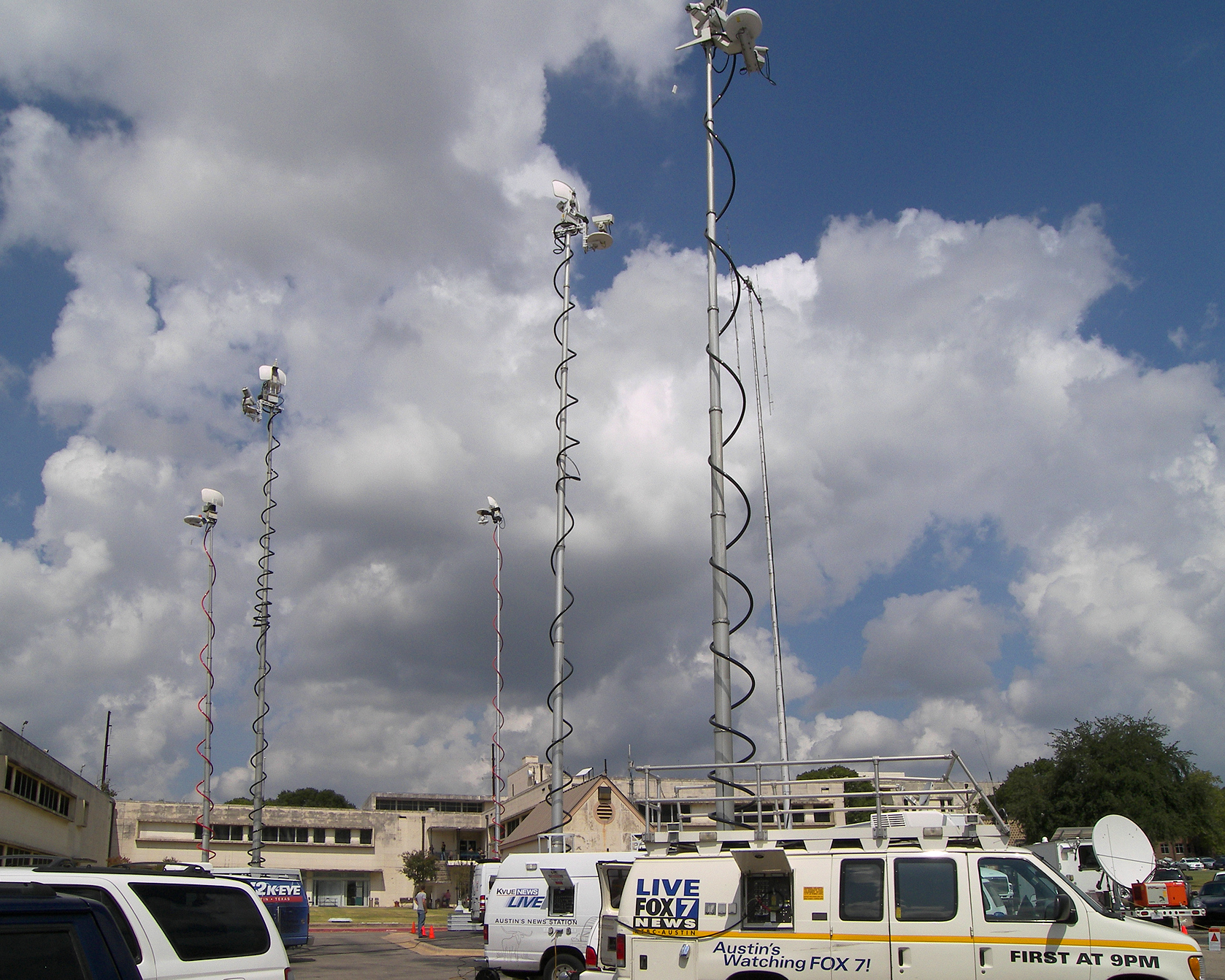 News vans at the Texas Department of Public Safety in Austin, Texas, United States for a news conference about Hurricane Ike.